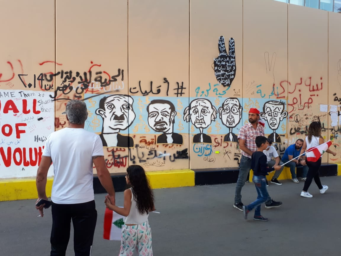 Protests in Beirut